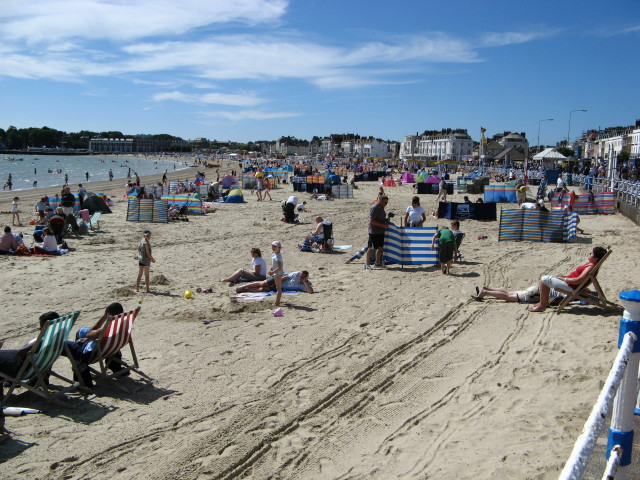 Weymouth Beach on a hot summer day A view of Weymouth's sandy beach in the peak summer holiday season.